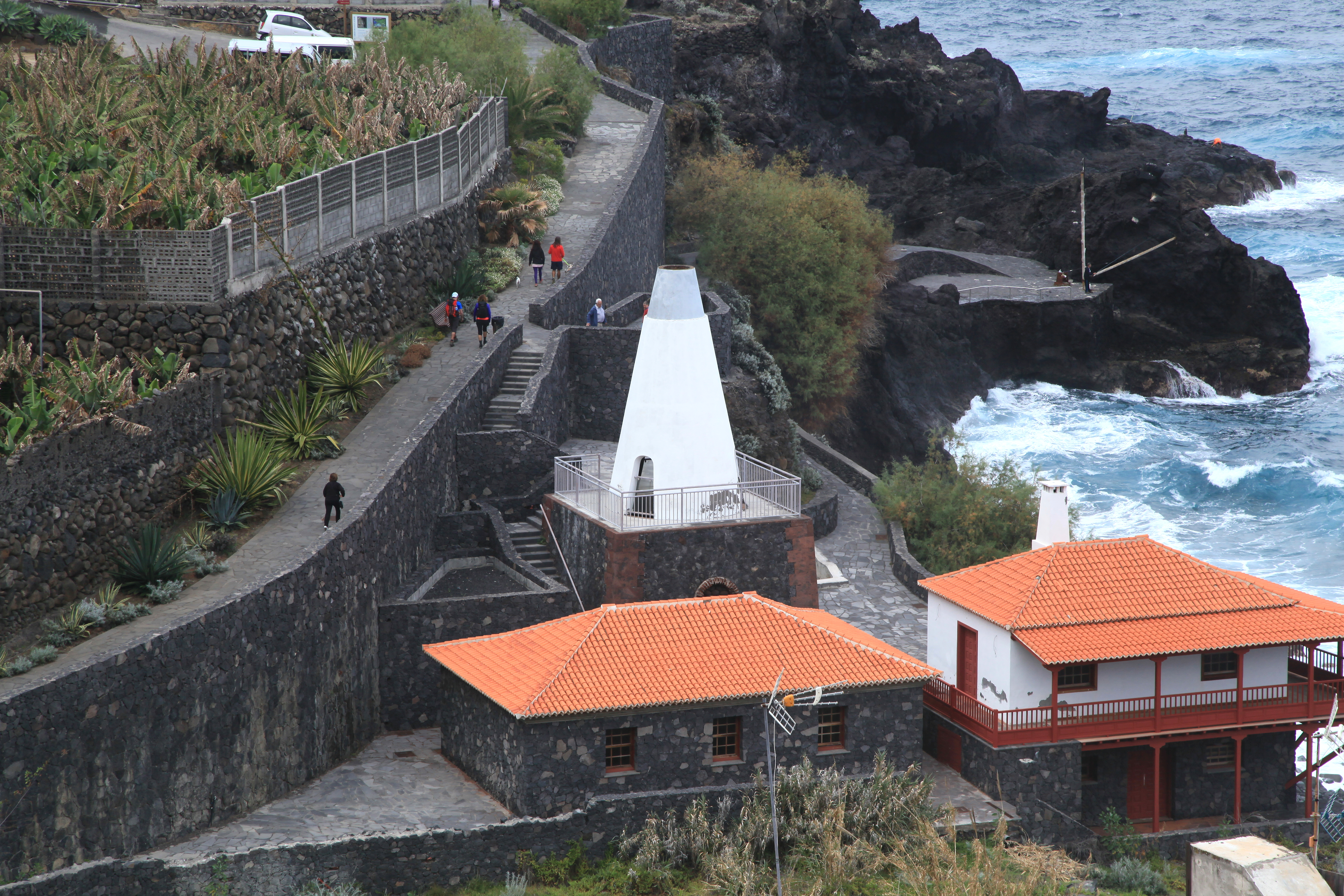 Paseo Marítimo Charco Azul in San Andrés, San Andrés y Sauces, La Palma, Canary Island, Spain